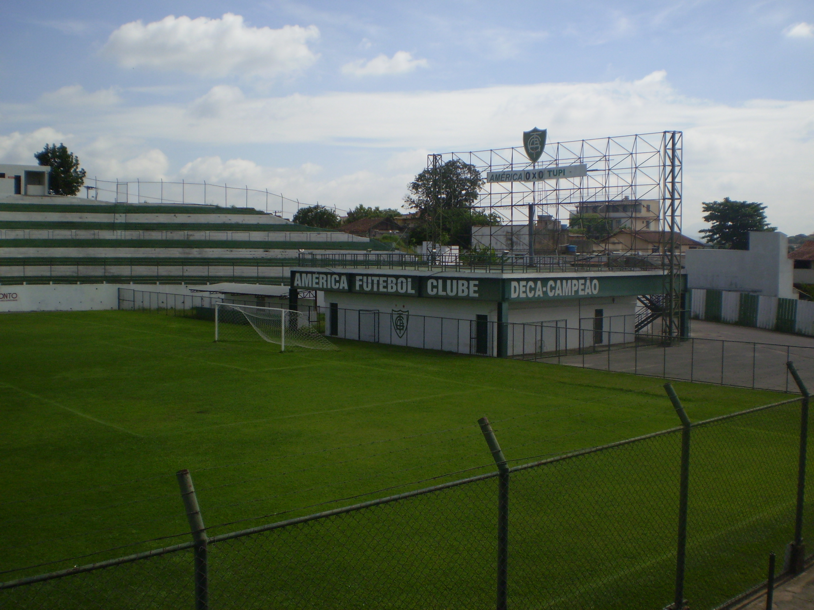 The interior of the Estádio Independência - right hand goal (as you enter through main gate)